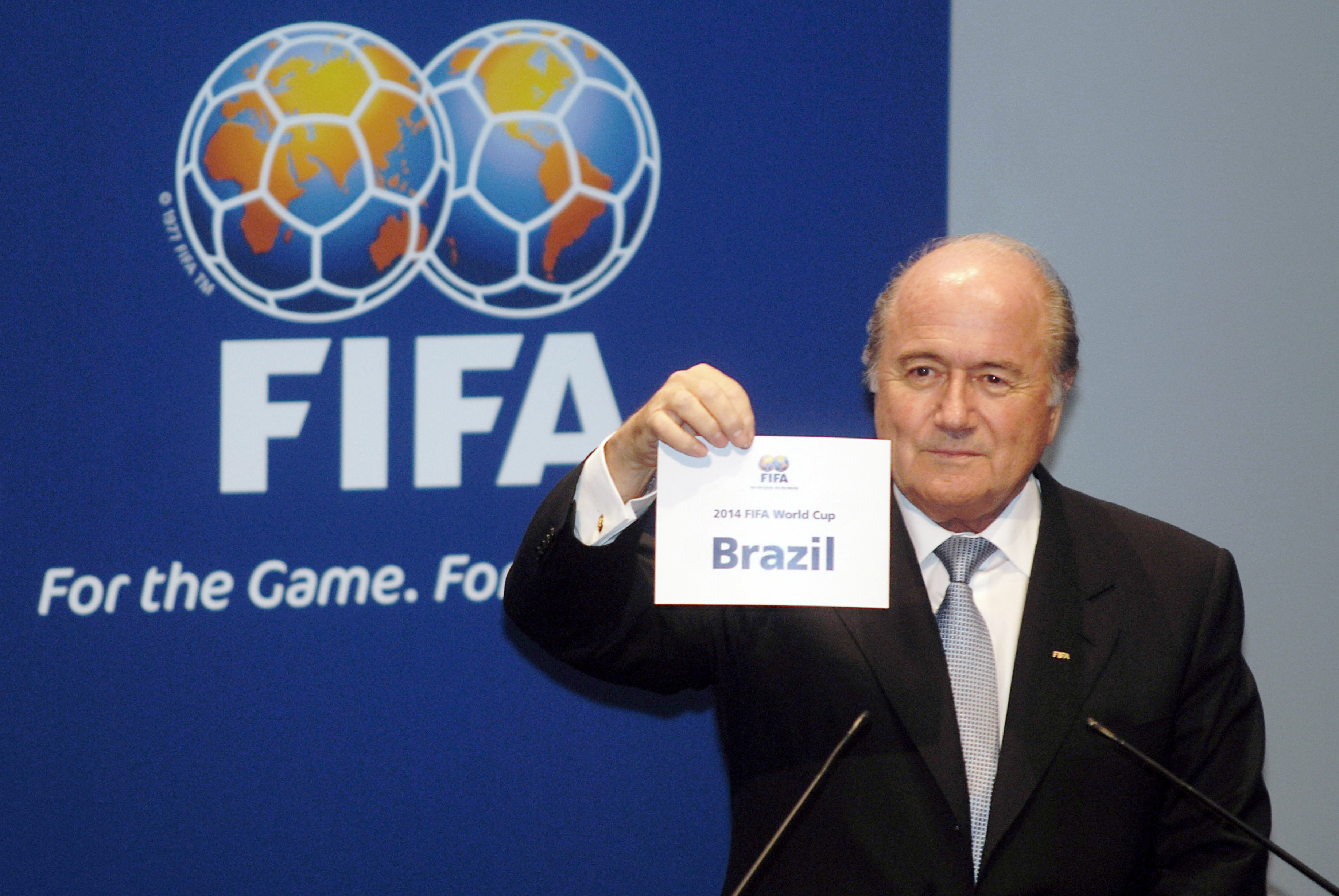 Joseph Blatter announcing 2014 World Cup will be held in Brazil.